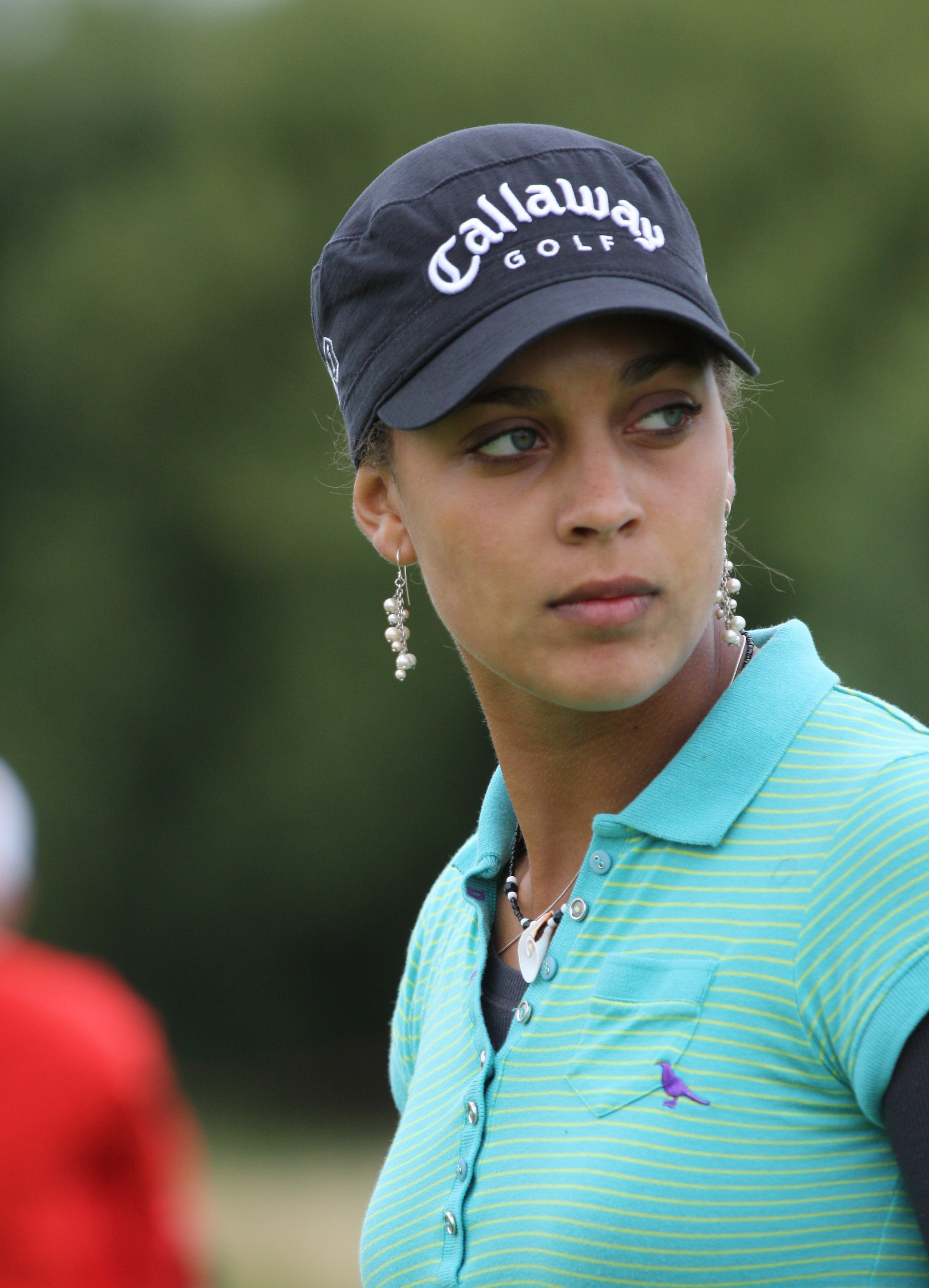 LYTHAM ST ANNES, UNITED KINGDOM - JULY 29: Henrietta Zuel of England walks off the 11th green during third practice round before 2009 Ricoh Women's British Open held at Royal Lytham & St Annes on July 29, 2009 in Lytham St Annes, England. (Photo by Wojciech Migda)